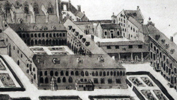 Maastricht, the Netherlands. Detail of a drawing of the Dominican monastery by Philippus van Gulpen, c 1850, after an early 18th-century engraving by Jacob Harrewijn.